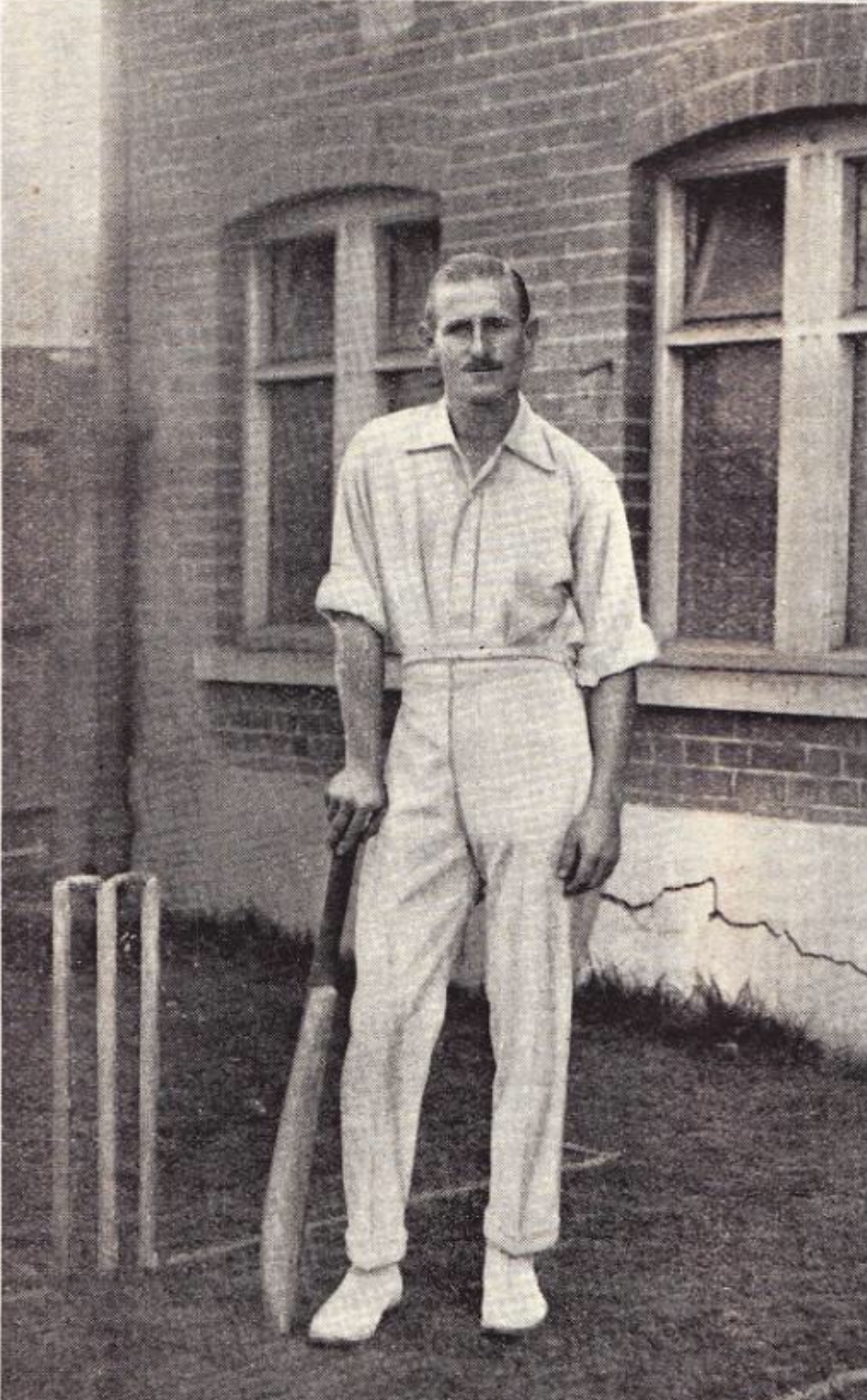 Australian Cricketer